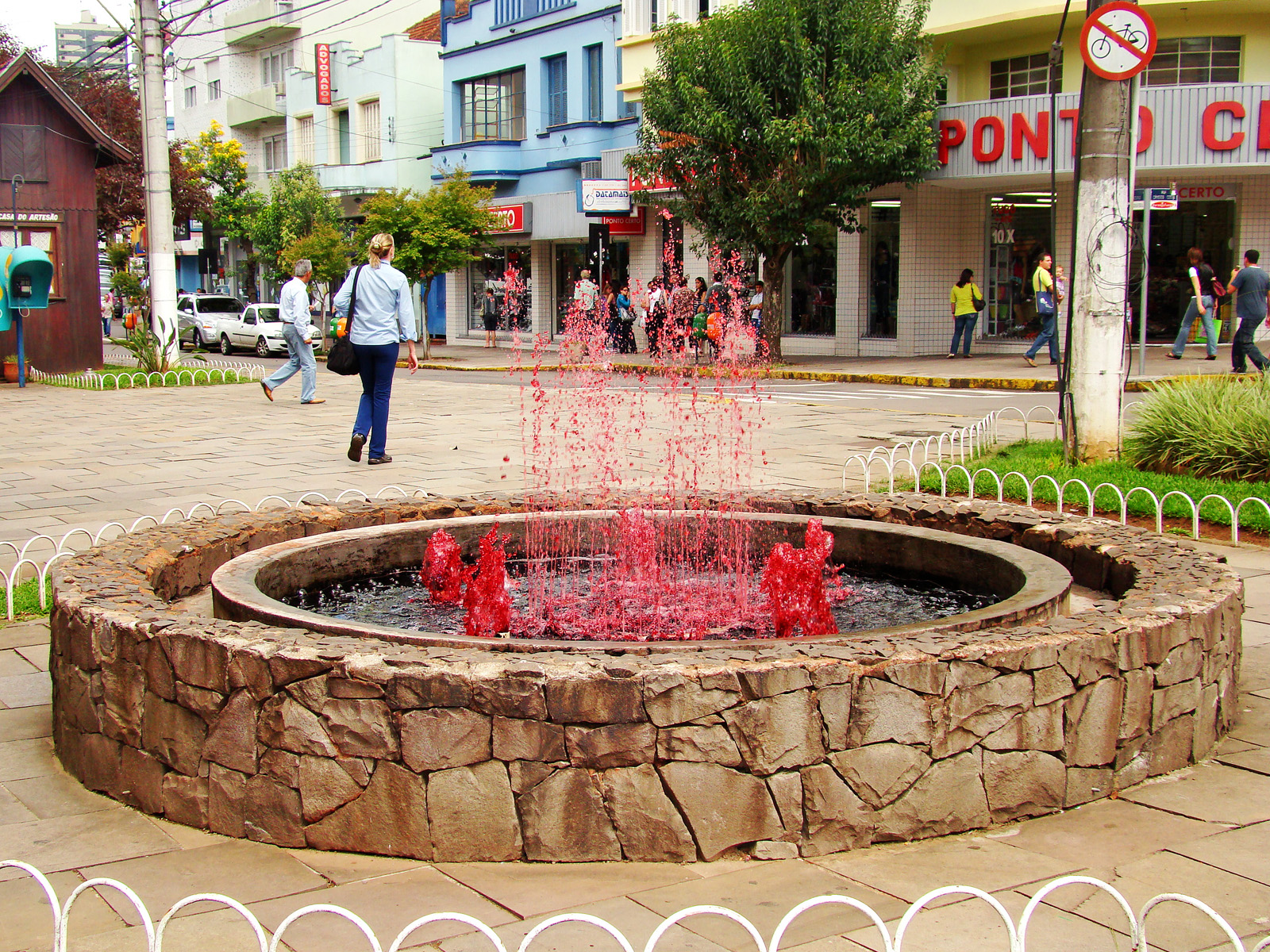 Wine fountain located near the Town Hall centre.